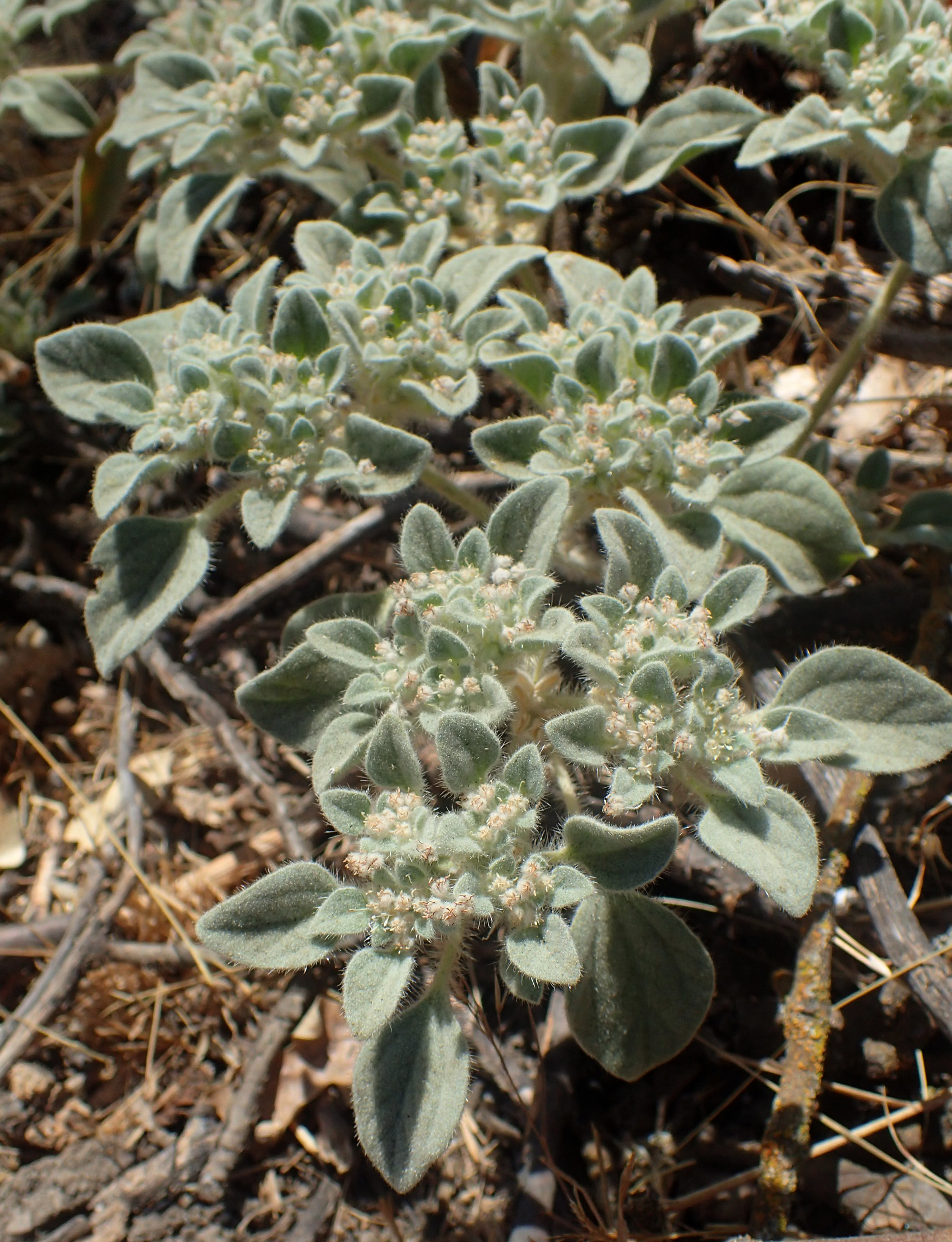 Croton setigerus; on slope in oak woodland at Evans Rd, 1400 yd SW from Cedar Creek Campground in Kern County, California